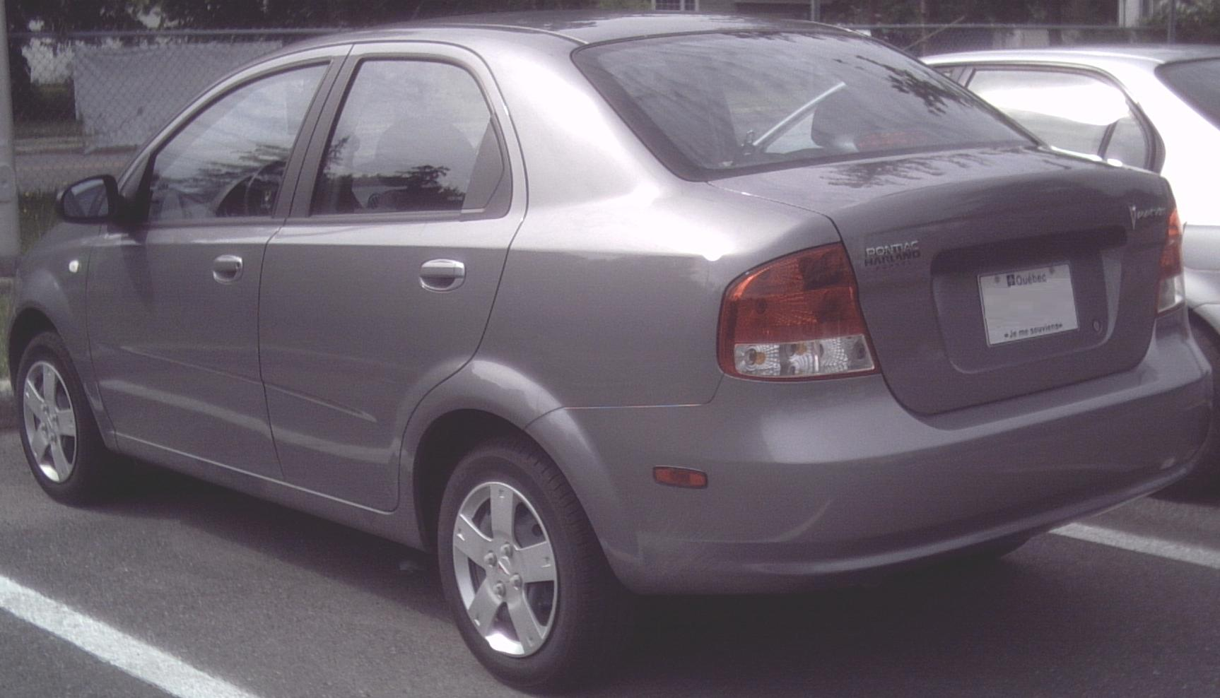 2004-2007 Pontiac Wave sedan photographed in Montreal, Quebec, Canada.